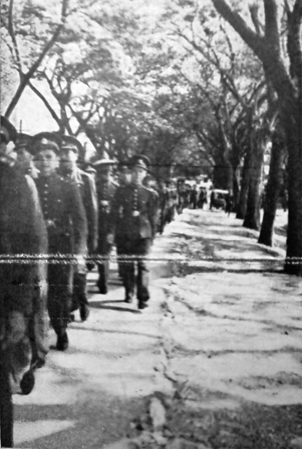 Class 1 graduates of the Preparatory School of Chulalongkorn University as they proceed to the university campus during their initiation ceremony as university students on 1 June 1940. The uniform is that of the Military Youth movement which was active from 1937 to 1947 and pioneered by then-Prime Minister Plaek Pibulsonggram.